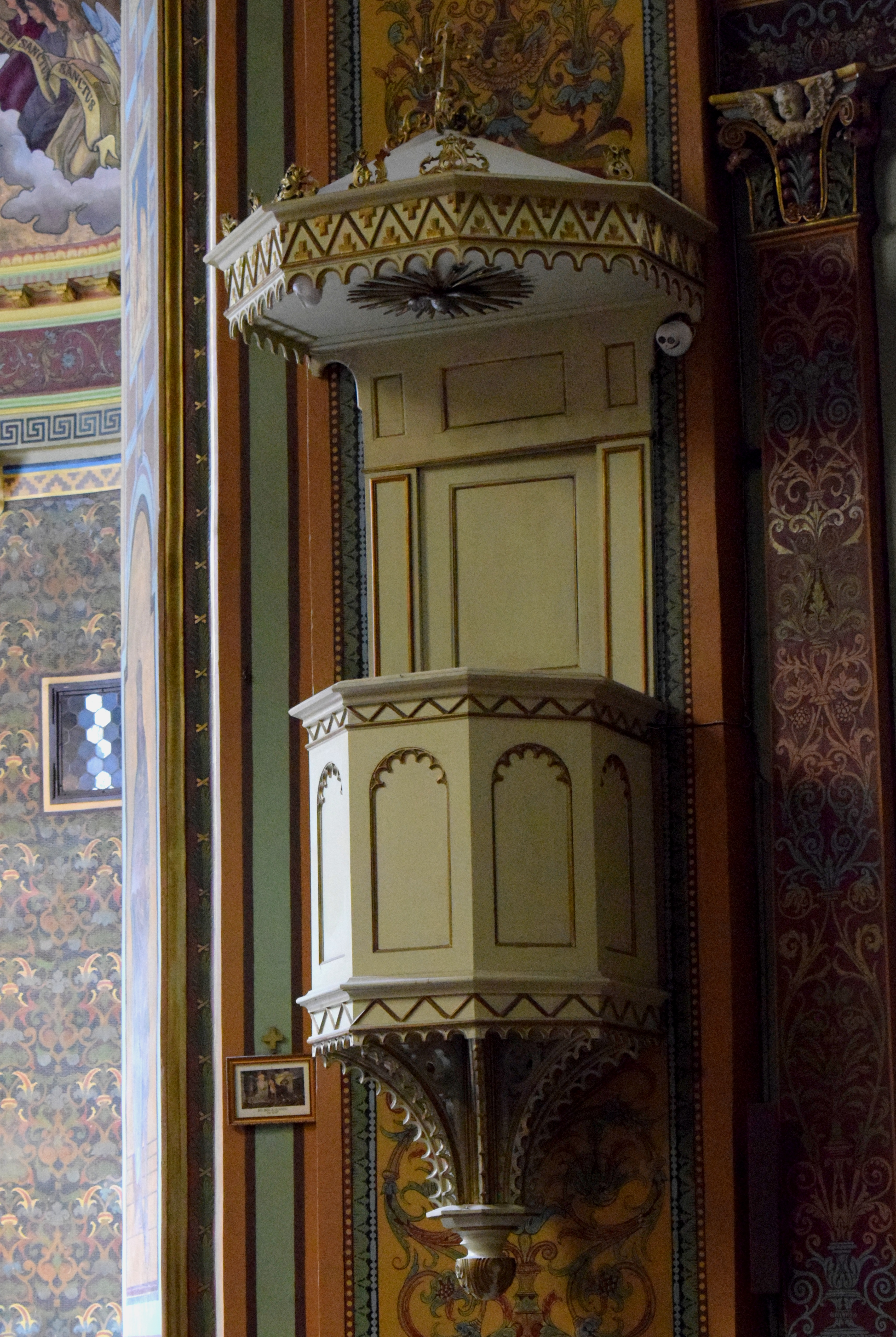 Neo-Gothic pulpit in the Church of Saint Ladislaus in Bratislava. Painted and gilt wood, white and gold colour scheme. Designed by Ferenc Storno the Younger in 1891. Iconography: dove, cross (abat-voix)